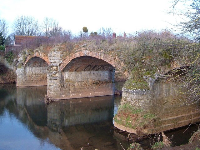 Aqueduct across River Tone. A view of 1609067 from the upstream side. It seems surprising that the structure has lasted so long after the canal closed in 1867. Visitors are discouraged from crossing it.